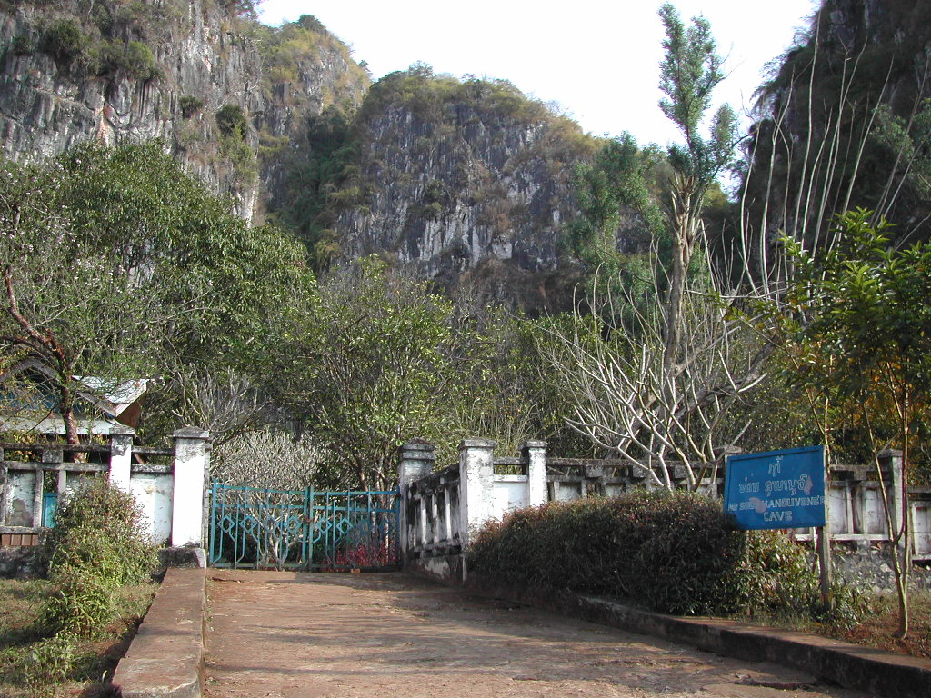 This is the entrance to the cave where Mr. Souphanouvong lived during the Indochina war. It is located in Vieng Xai, Laos.